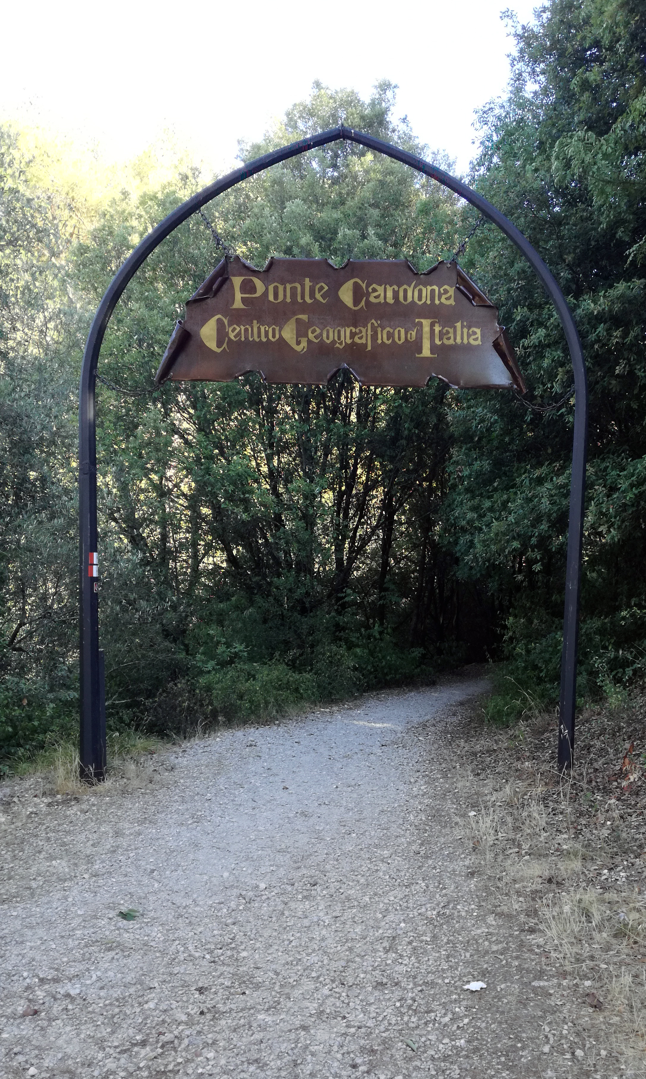 Starting point of the trail that leads to Ponte Cadorna and to the traditional geographic center of Italy, near Terni